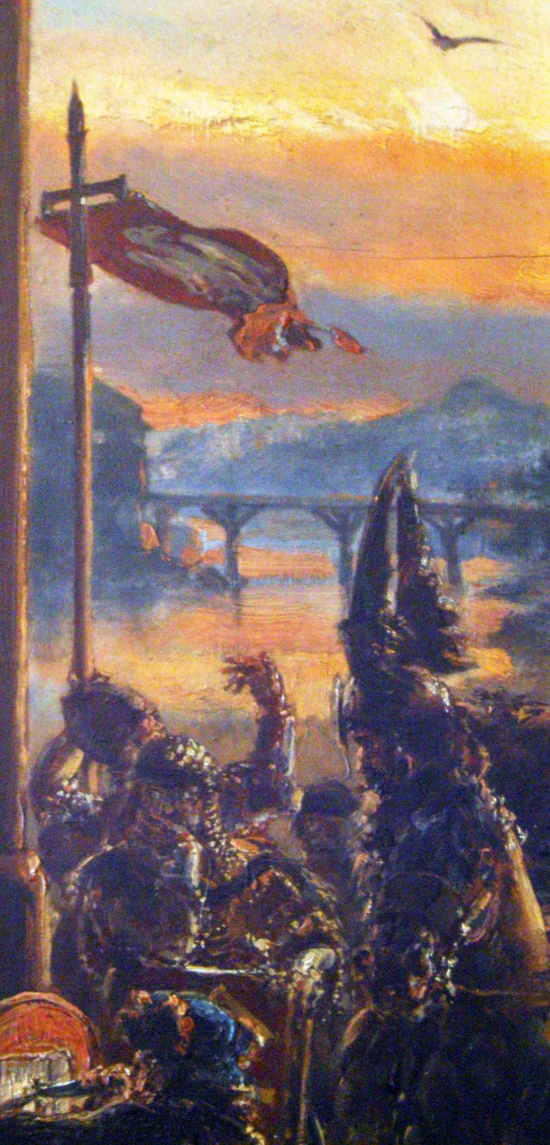 Christianization of Poland, 966, fragment showing the ducal vexillum